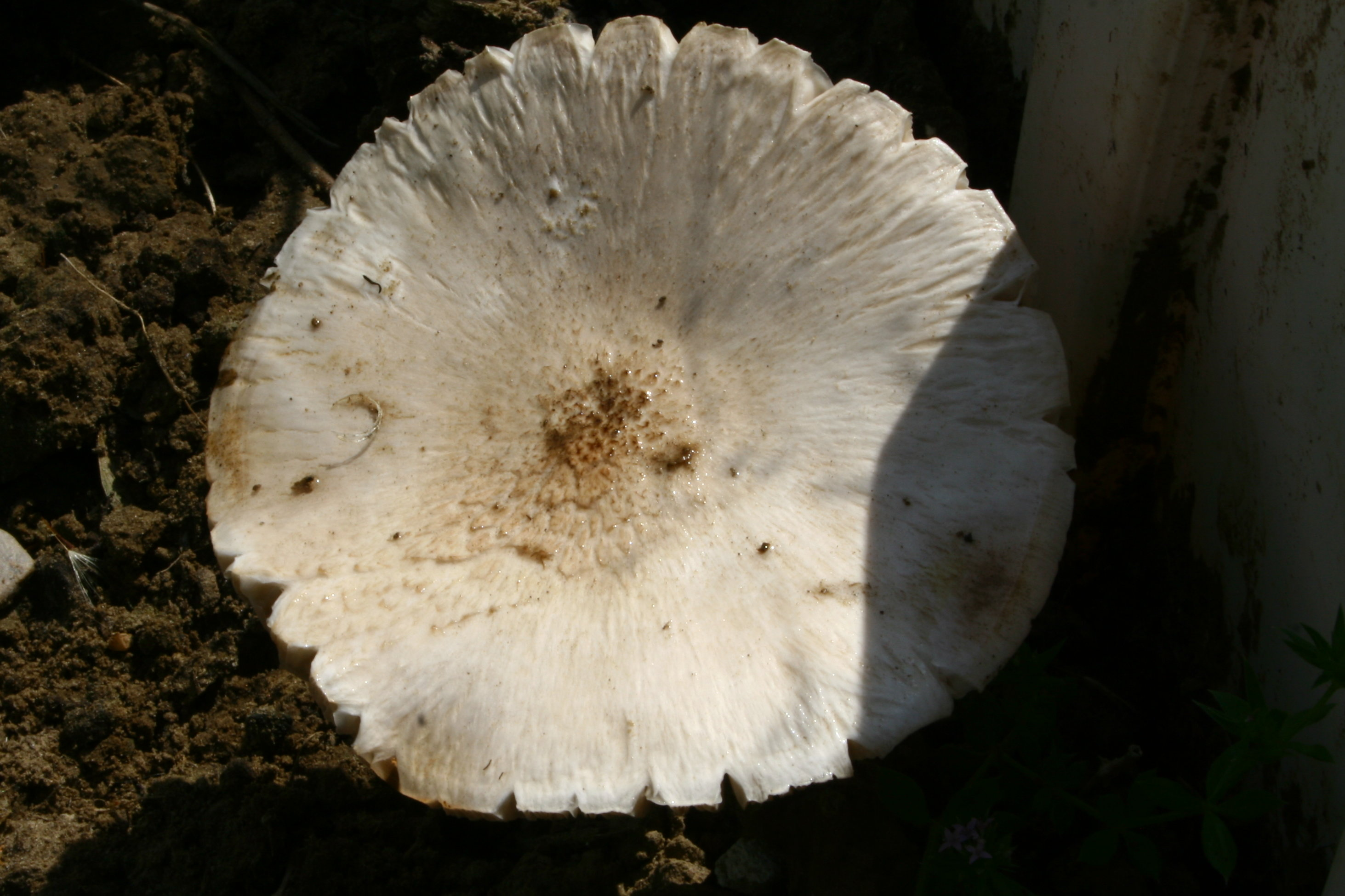 Pluteus petasatus in a garden in Massy, France.